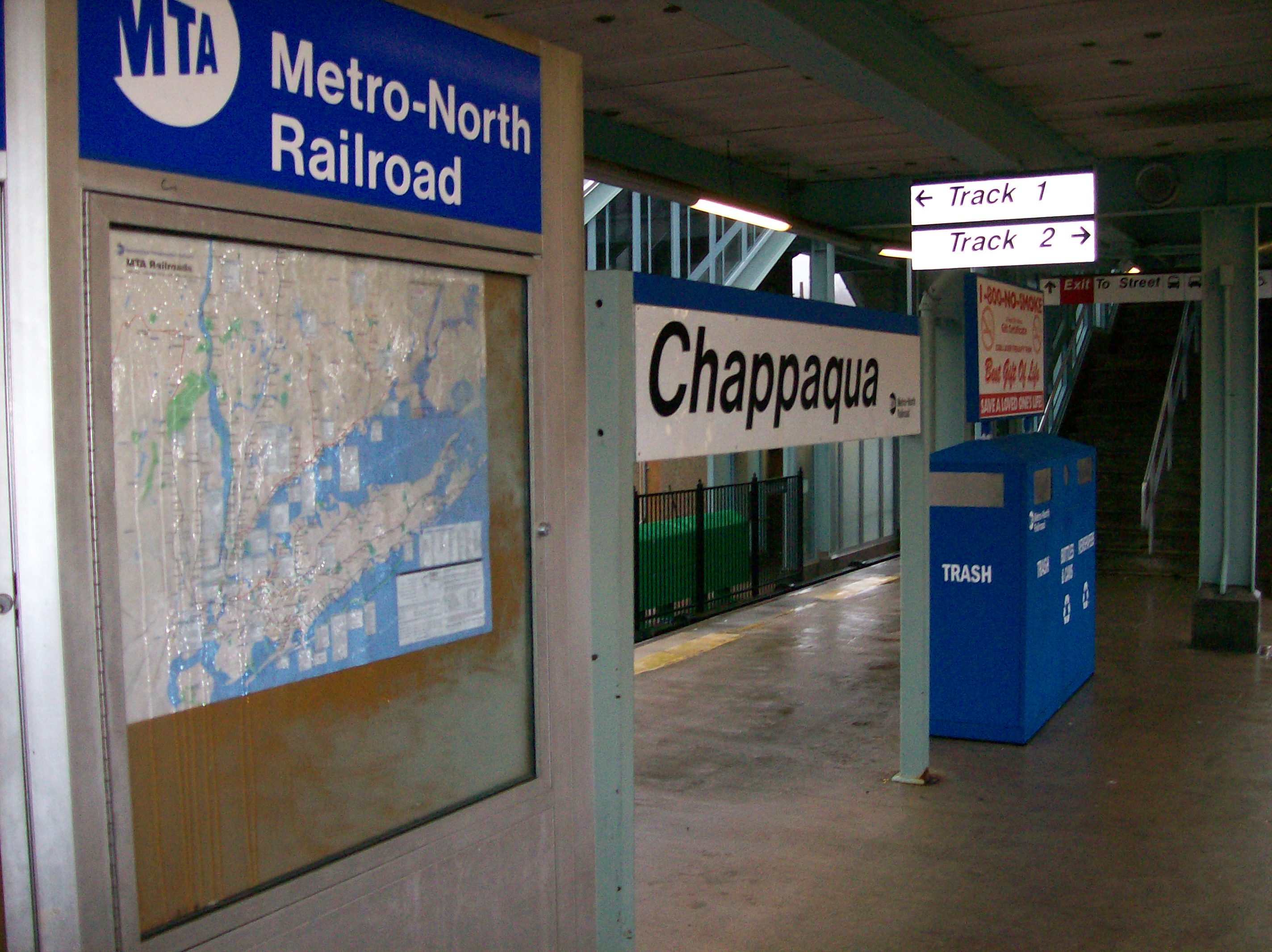 The platform of Chappaqua Metro-North station in Chappaqua, New York.